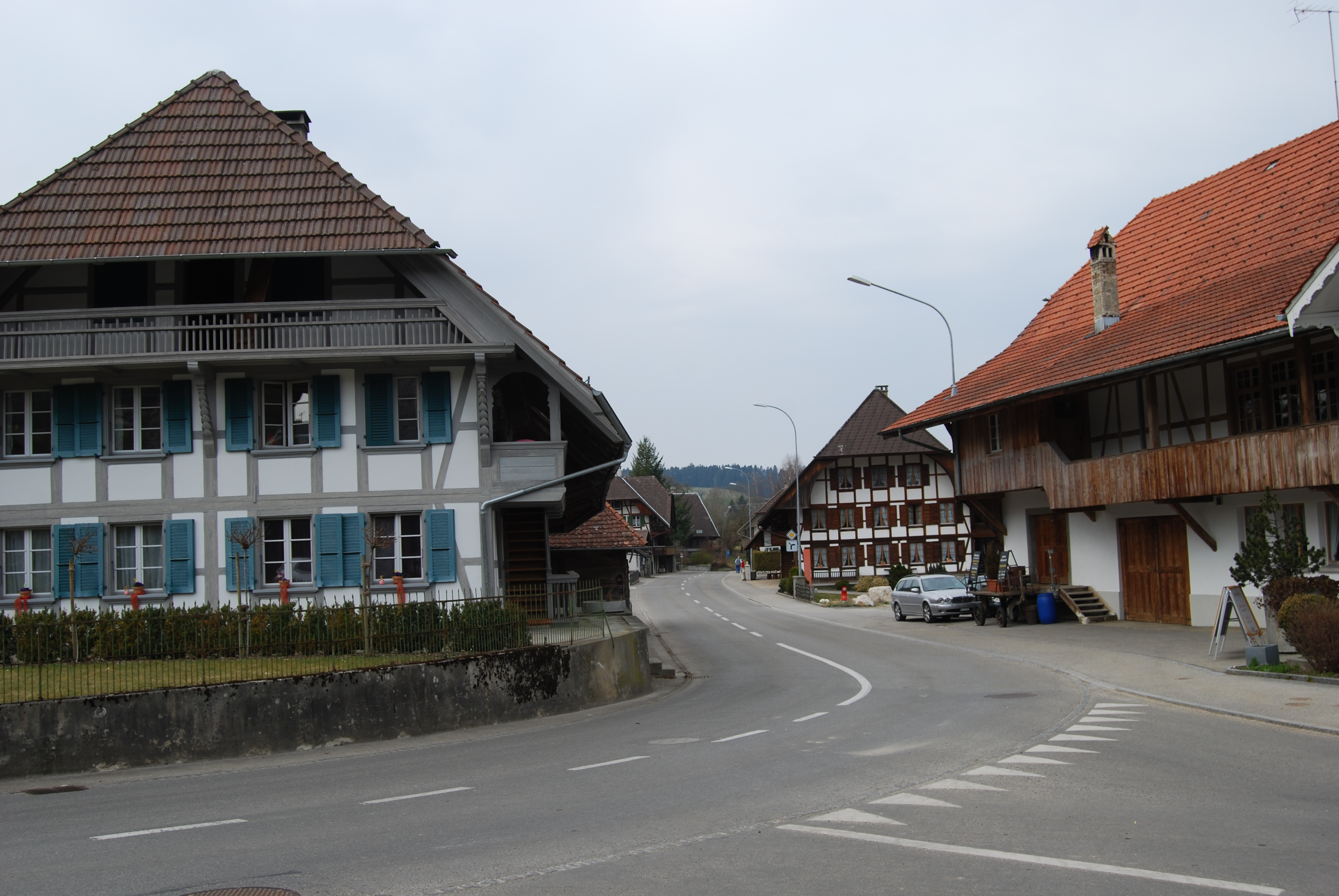 Timber framing house at Melchnau, canton of Bern, Switzerland